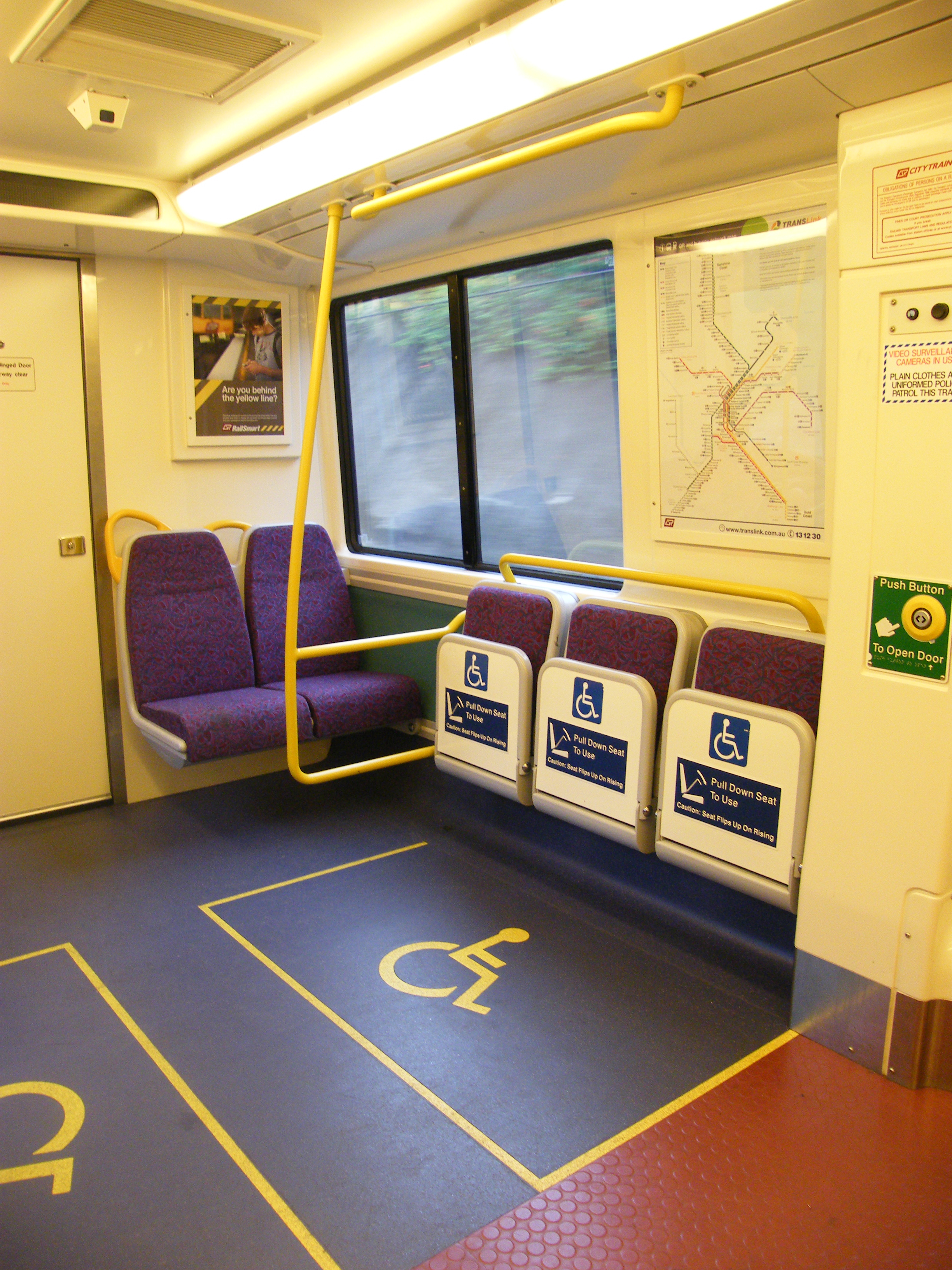 The Suburban multiple unit 260 class of electric multiple units entered service in 2008. They operate on all lines of the Queensland Rail City network.